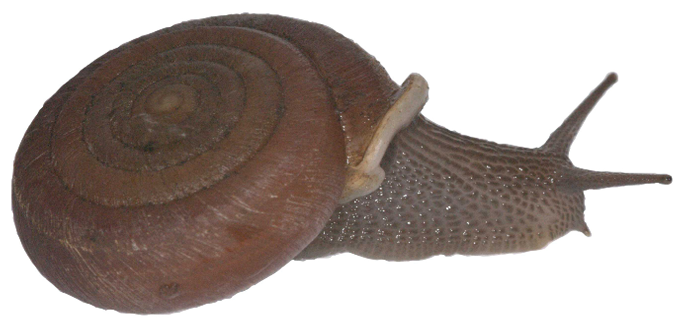 Photo of Halongella schlumbergeri. Locality: Halong Bay area, Vietnam.